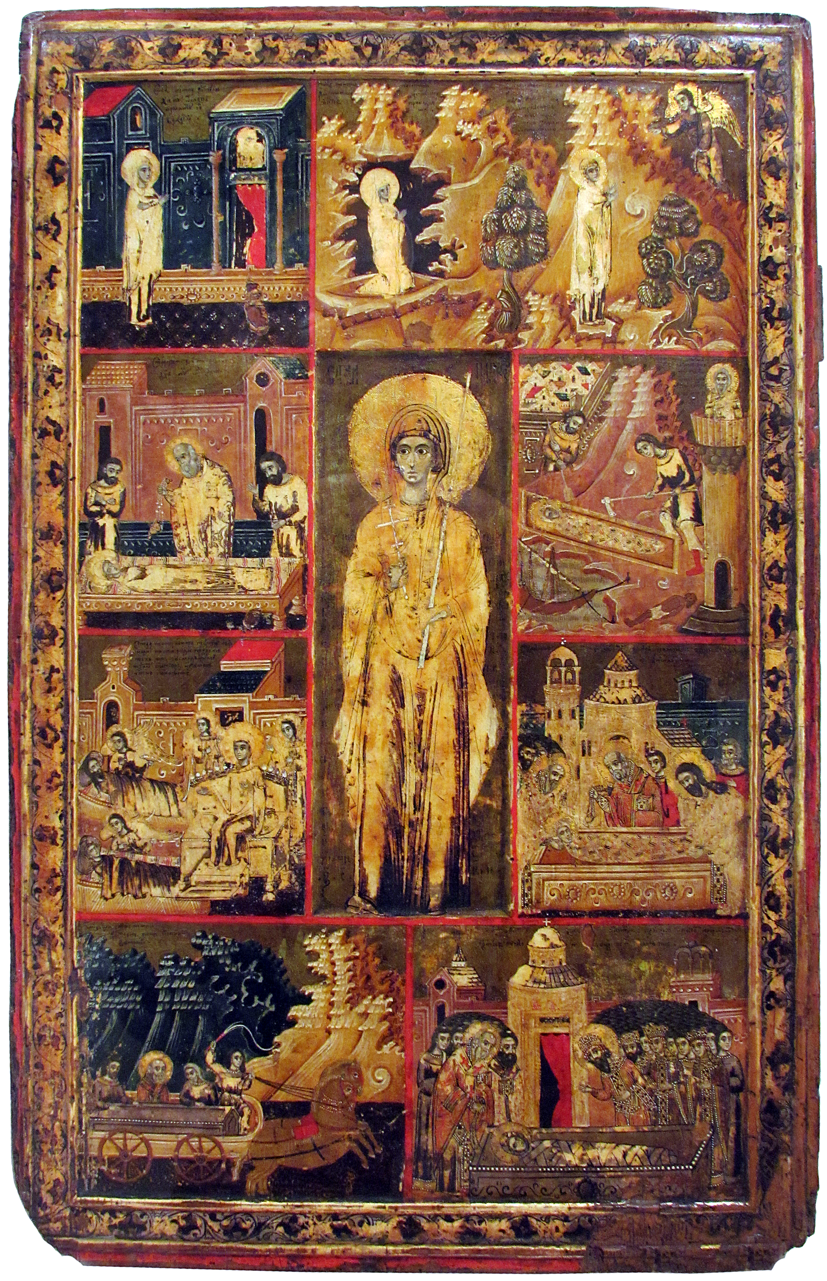 Vita icon of St Paraskeve of Trnovo (Patriarchate of Peć, 1719-20)